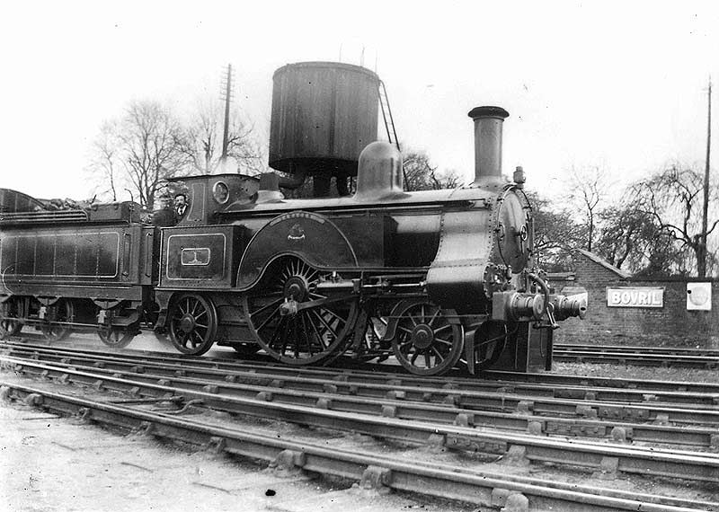 Londonand North Western Railway Problem/Lady of the Lake class locomotive No. 1 Saracen at Nuneaton railway station in 1904.